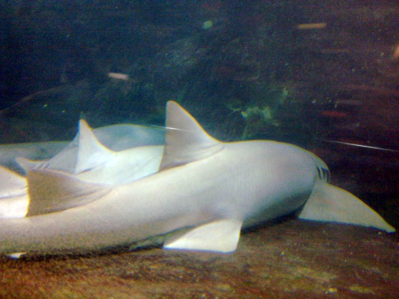 Tawny nurse sharks (Nebrius ferrugineus) at Underwater World, Sentosa Island, Singapore